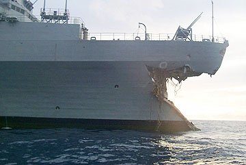 USS Denver (LPD 9) entering Pearl Harbor after collision at sea with USNS Yukon (T-AO 202). The collision occurred during an attempted UNREP 13 July, 2000 about 180 miles west of Oahu.